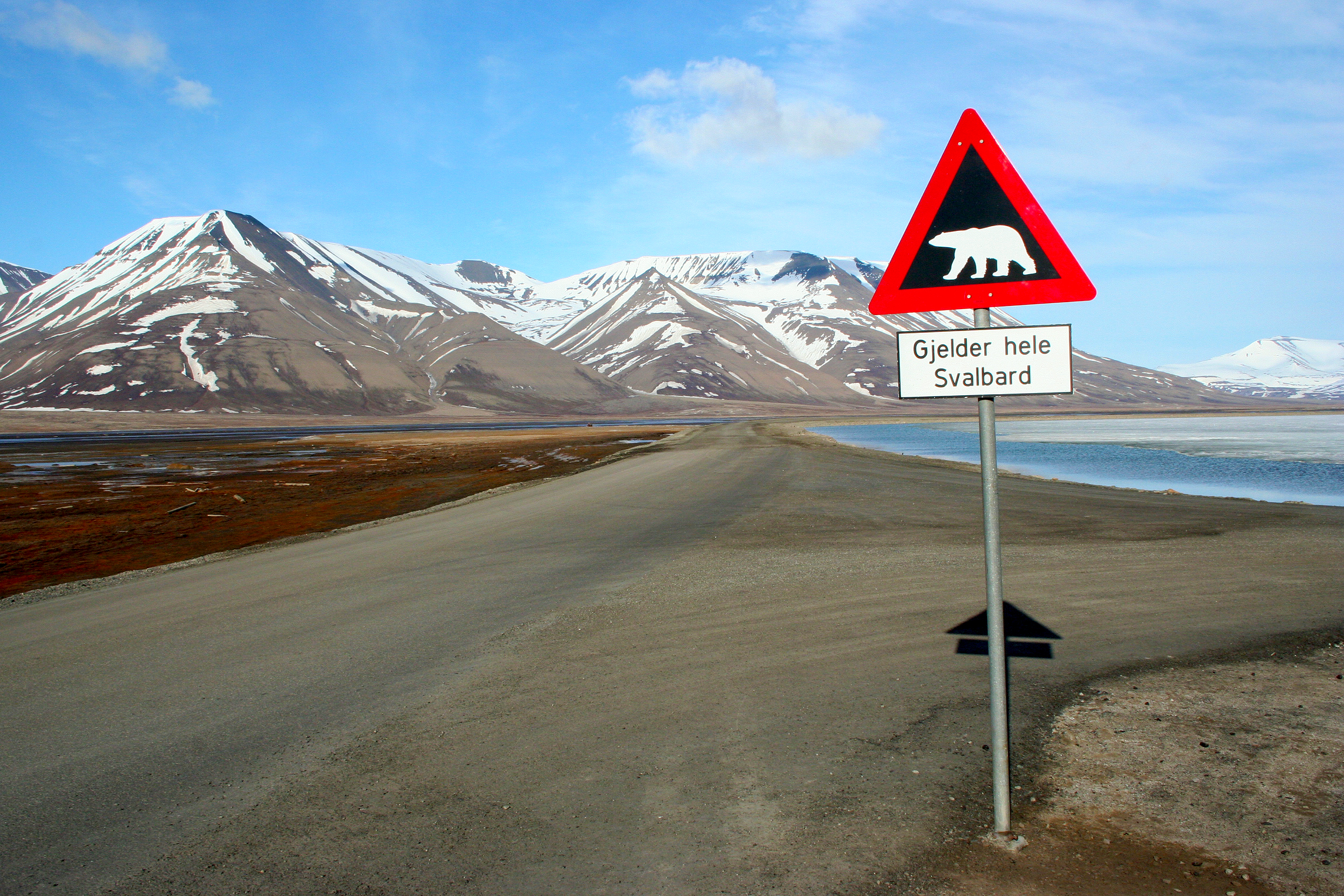 A road sing indicating the chance of polar bear appearance in Svalbard.